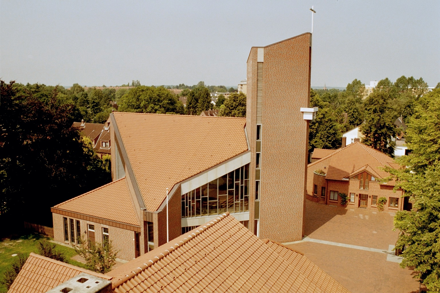 Catholic church in Quickborn